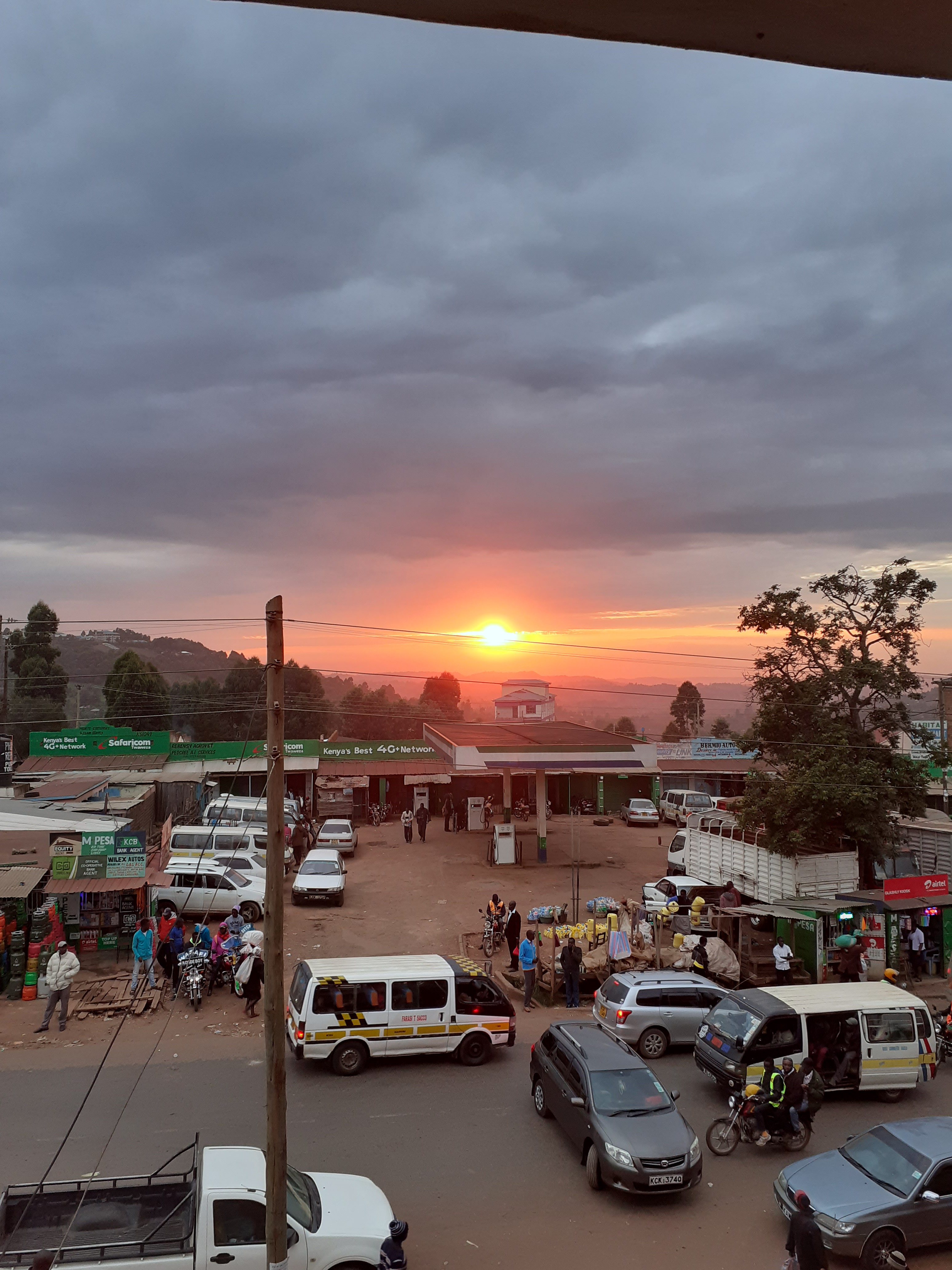 Keroka is a small town. But it's still the busiest and most important business hub for Nyamira County, Kenya. This picturesque photo, taken just before sunset, shows just how "chaotic" the traffic can get on the major-highway as everyone rushes home for a "matoke" banana stew dinner. This is an image with the theme "Africa on the Move or Transport" from: Kenya